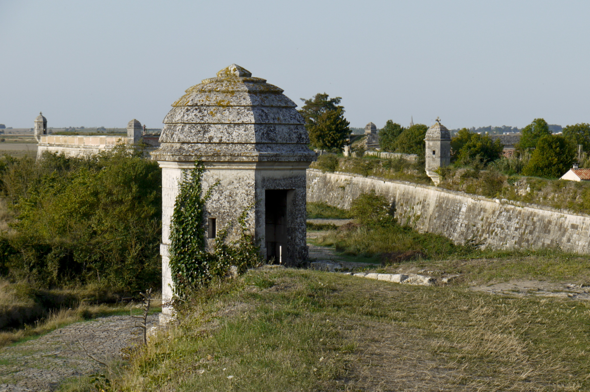 Brouage, France. Fortress wall.